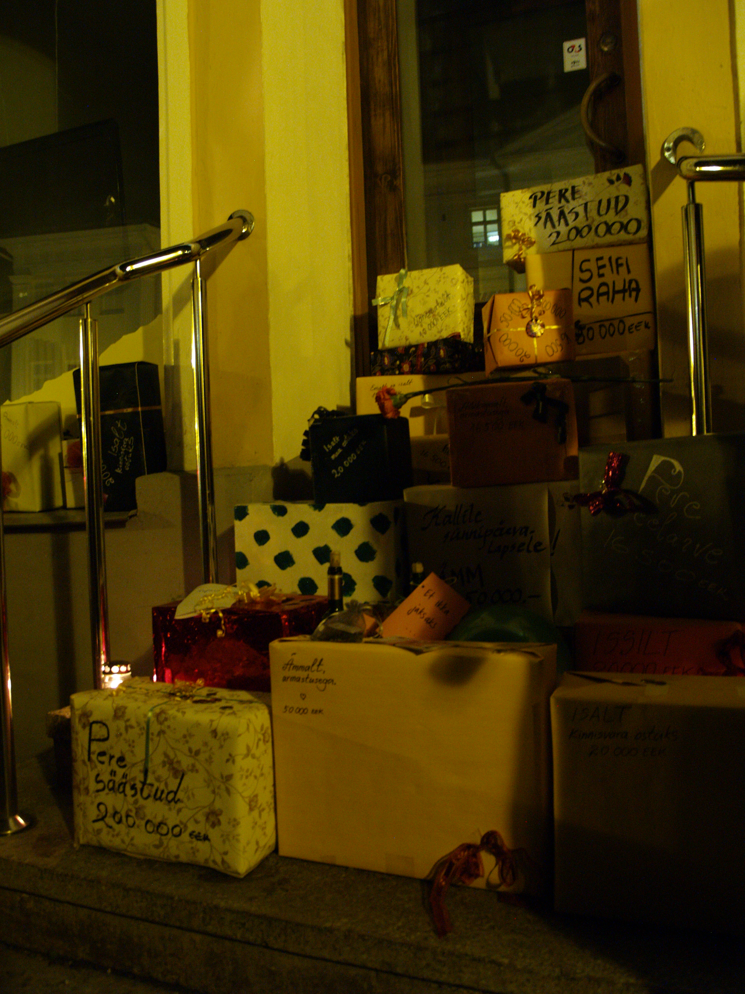 Demonstration in front of Estonian Reform Party office in Tartu under the slogan "An end to deceitful politics" at the 18th anniversary of Estonian Reform Party.